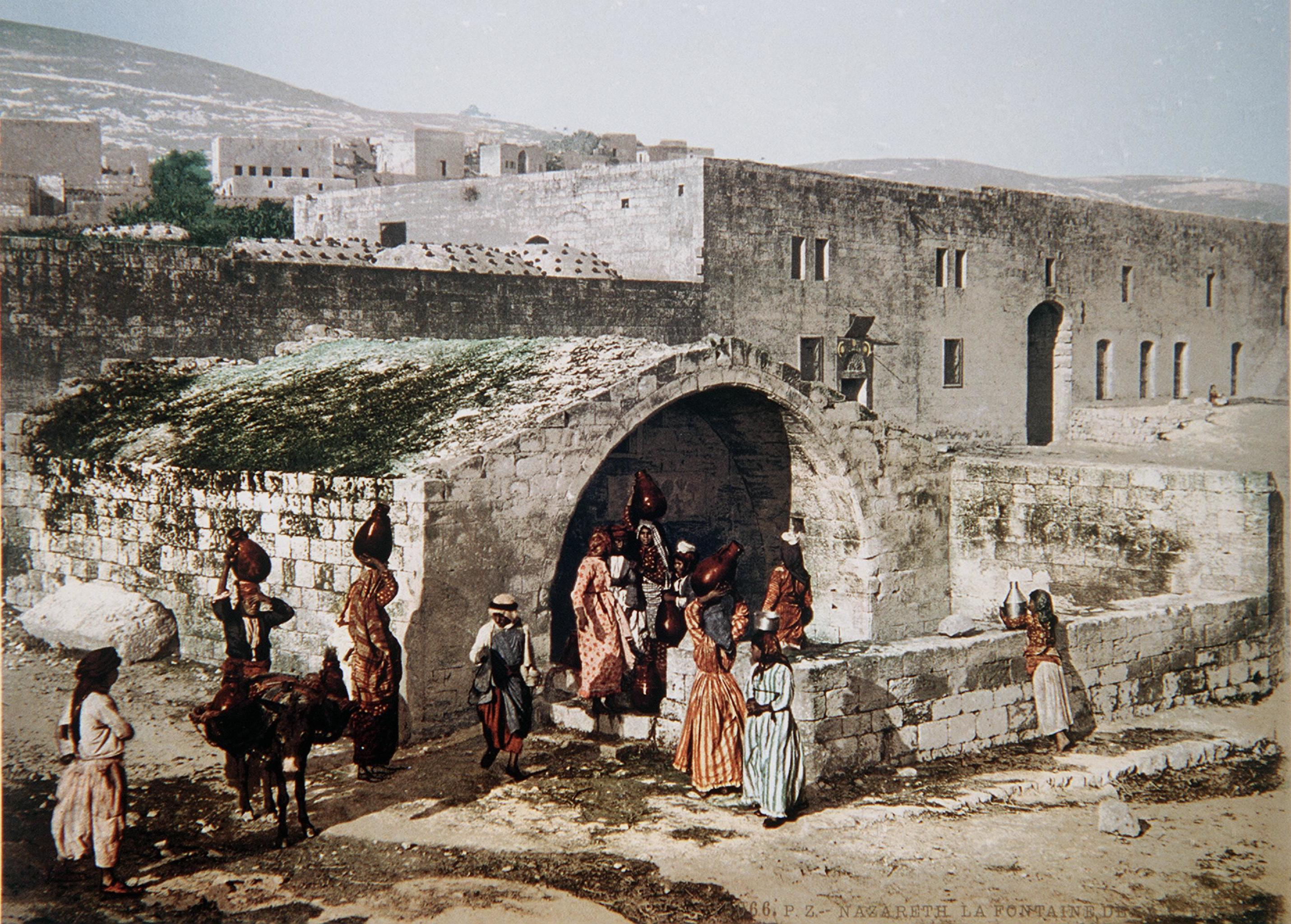 COLOR PHOTO TAKEN BY FRENCH PHOTOGRAPHER, BONFILS,IN THE LATE 19TH CENTURY OF A SCENE IN THE LAND OF ISRAEL. צילום צבעוני מסוף המאה ה19 של הצלם הצרפתי בונפיס אשר תעד במצלמתו את נופי ארץ ישראל ותושביה.